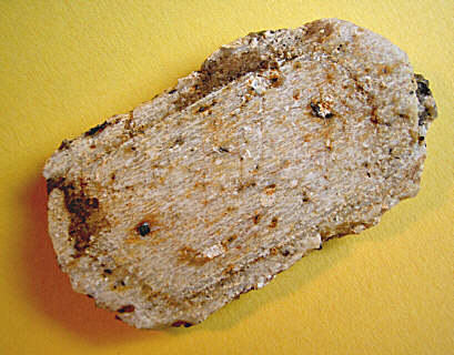 Feldspar crystal / habitat: Northeastbavaria